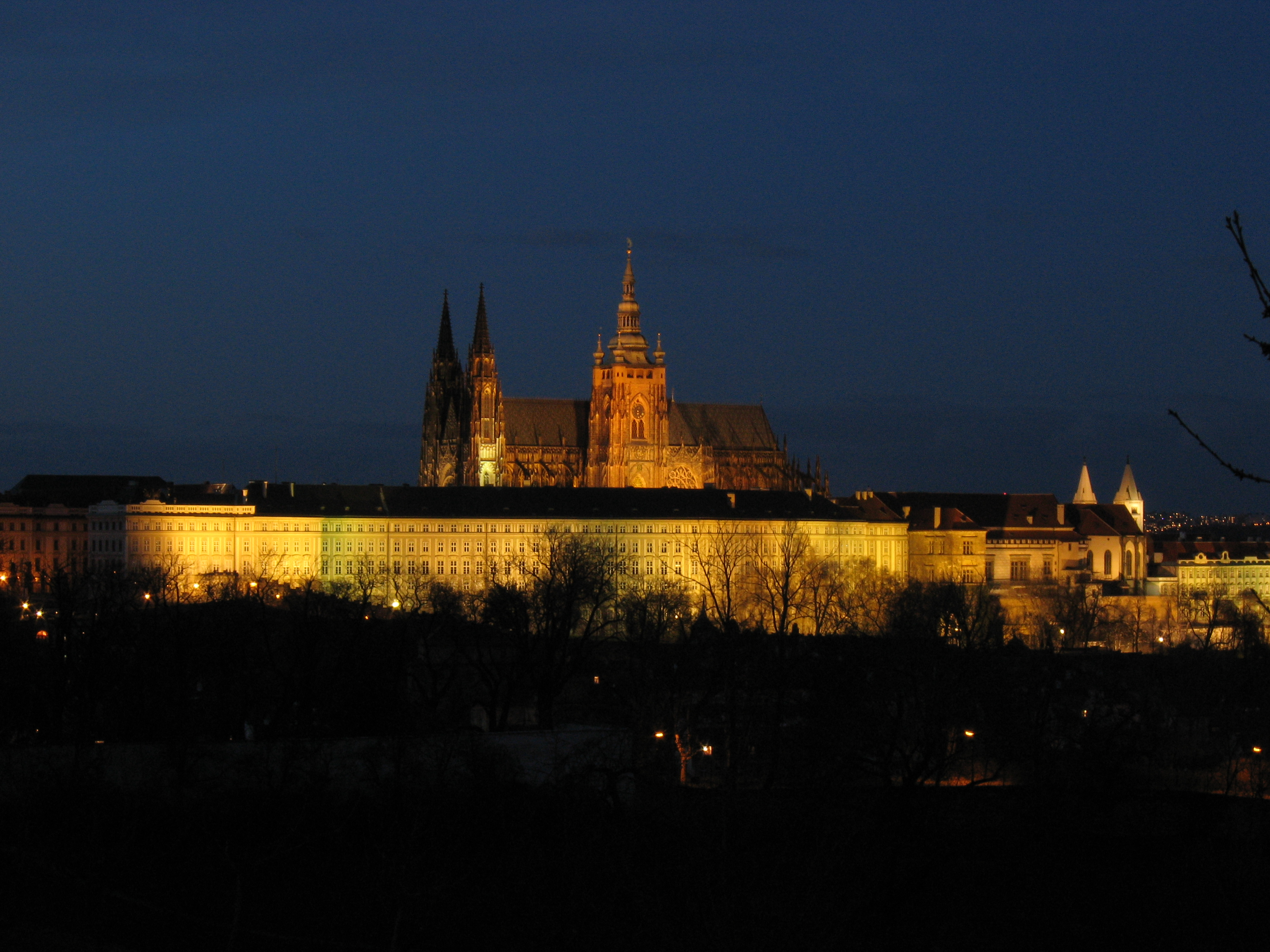 View of Prague Castle At Night